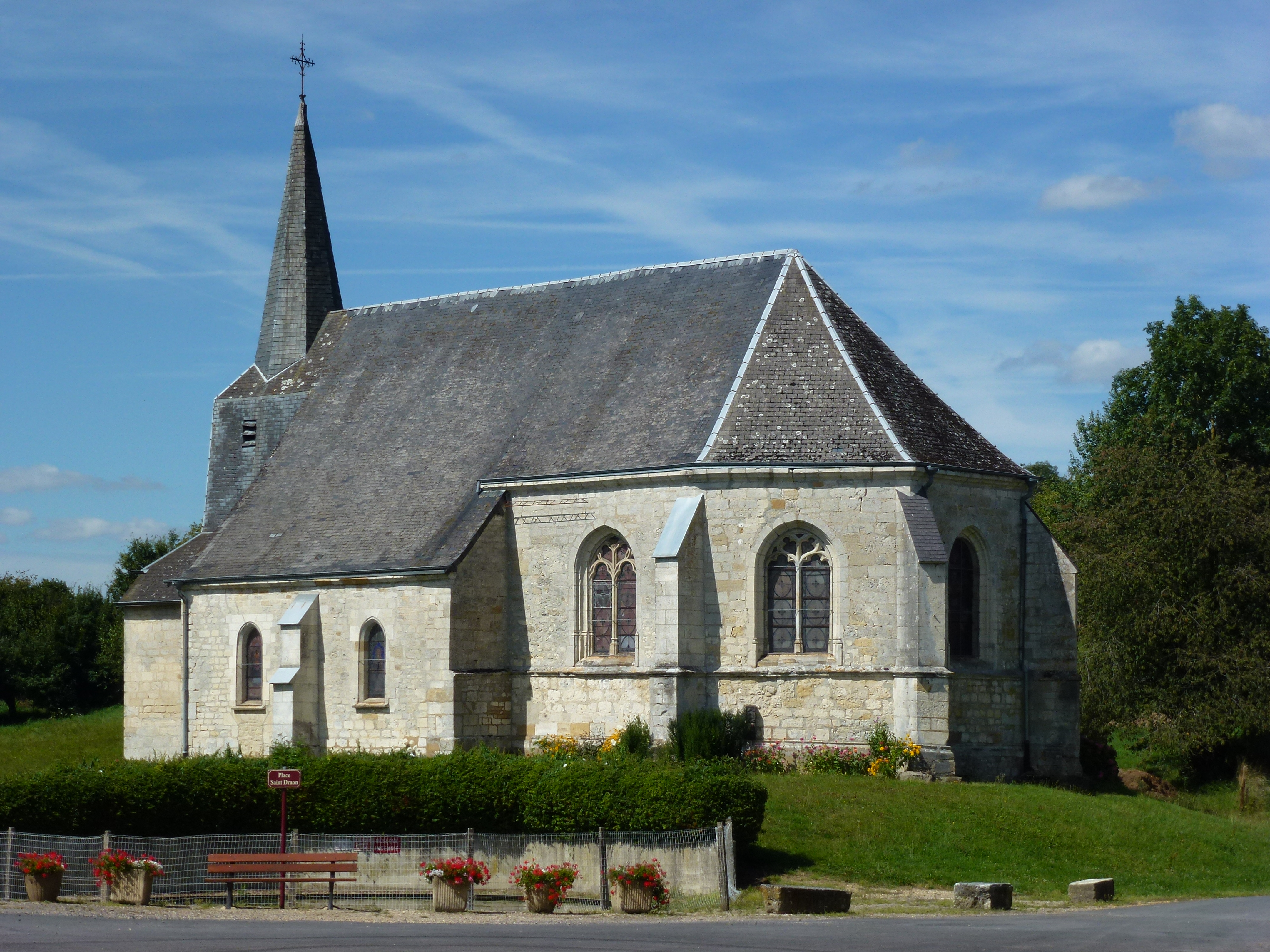 Faissault (Ardennes) église, chevet